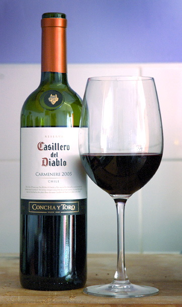 Concha y Toro 2005 Casillero del Diablo Carmenère wine bottle and glass